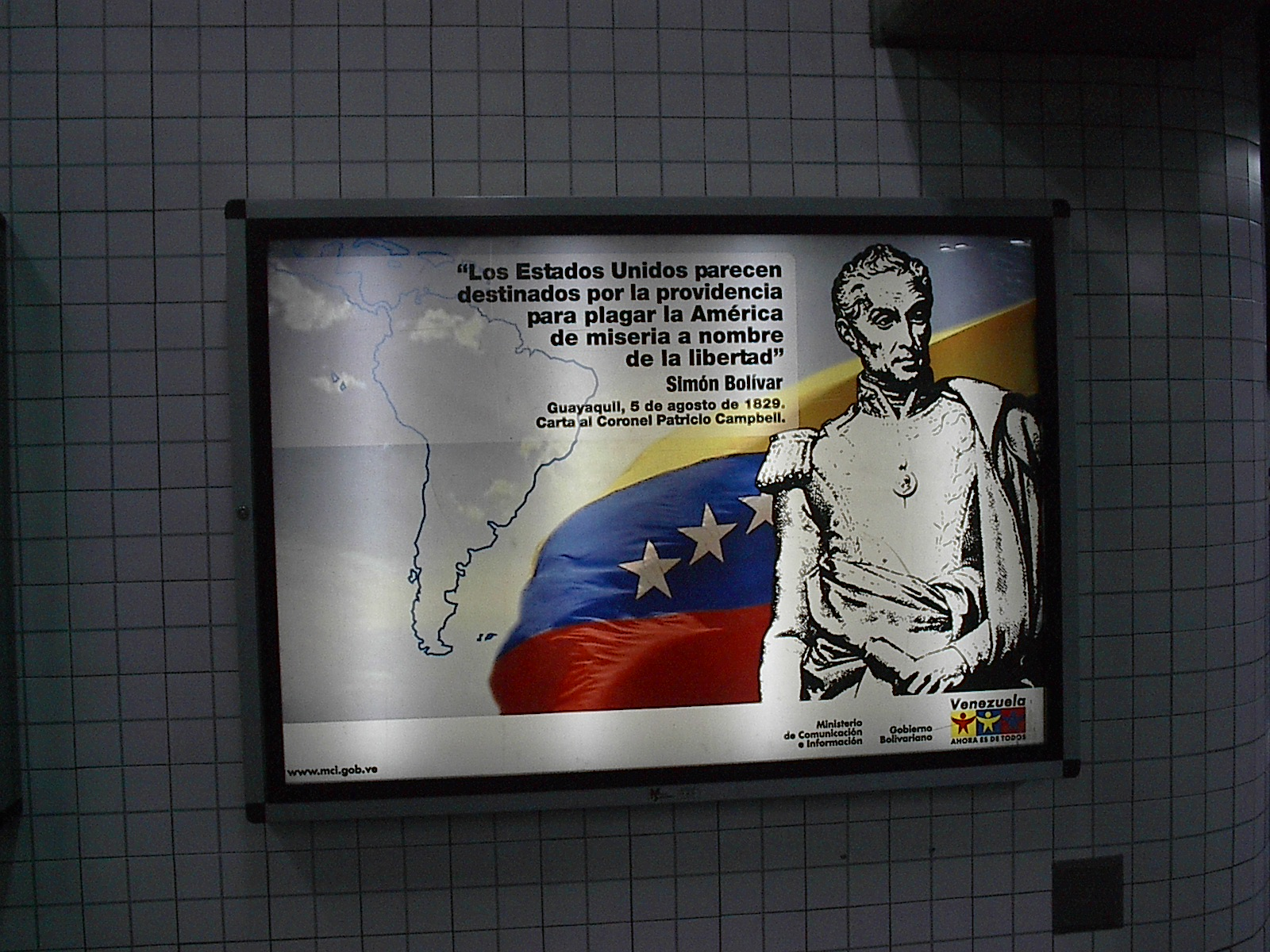 Bolivarian propaganda by the Venezuelan Ministry of Popular Power for Communication and Information stating "The United States appears by providence to plague America with misery in the name of freedom."